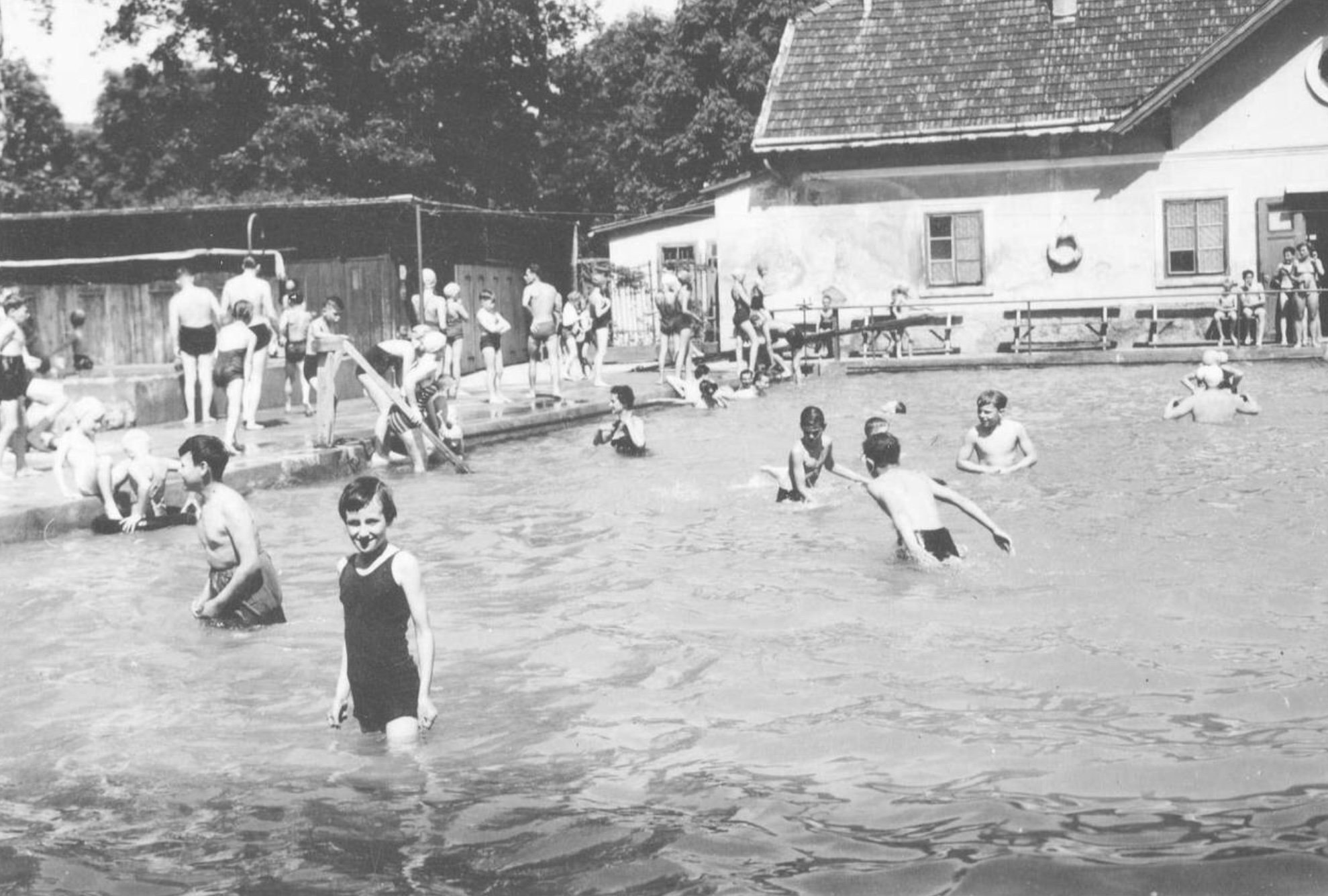 Lido in Scheibbs, Austria